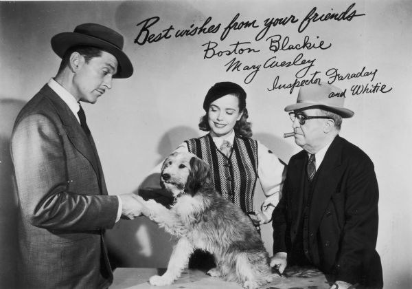 Boston Blackie (played by Kent Taylor), Mary Wesley (Lois Collier), and Inspector Faraday (Frank Orth), the cast of the Ziv Television Programs show Boston Blackie, pose with Whitie the Dog.